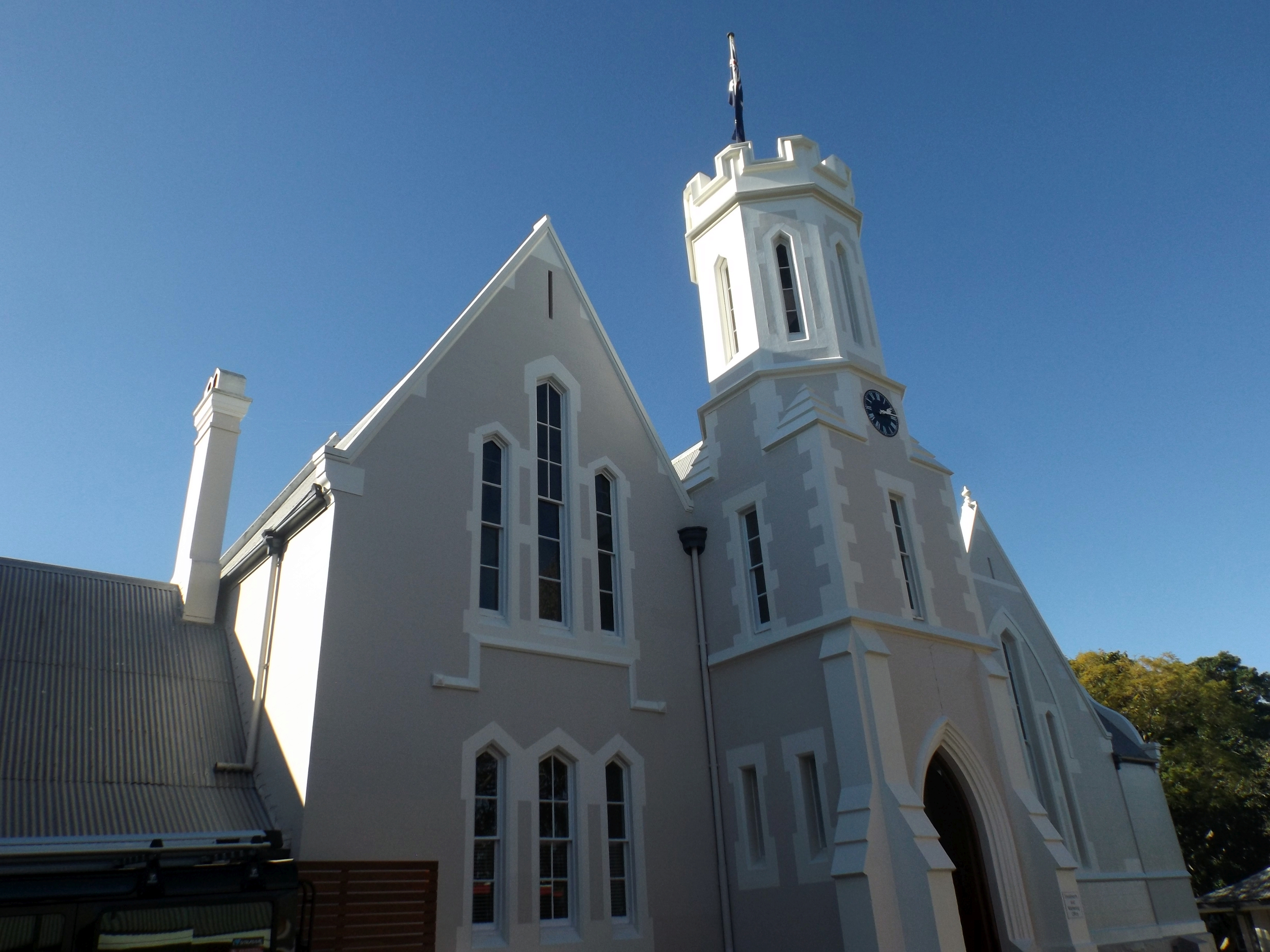 Ipswich Grammar School at Woodend, Ipswich, Queensland, Australia.